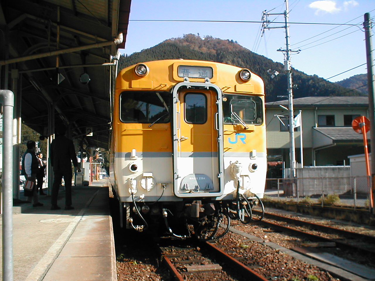 Kake Station on the abolished section of Kabe Line